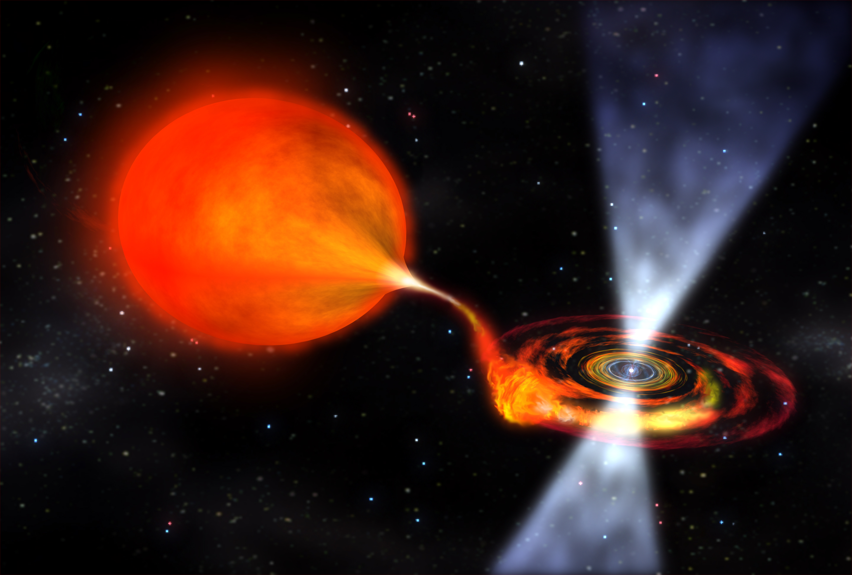 About 20 km. around, the density of a neutron star attracts matter from a companion star. Inward flowing material causes x-ray bursts and also causes the star's rotation to speed up. Turkish: Yaklaşık 20 km. çapındaki bir nötron yıldızı yoğunluğundan kaynaklanan kütleçekimiyle eş yıldızındaki maddeyi kendine çekiyor. Eşten pulsara akan gazlar x-ışını patlamalarına neden oluyor. - canlandırma